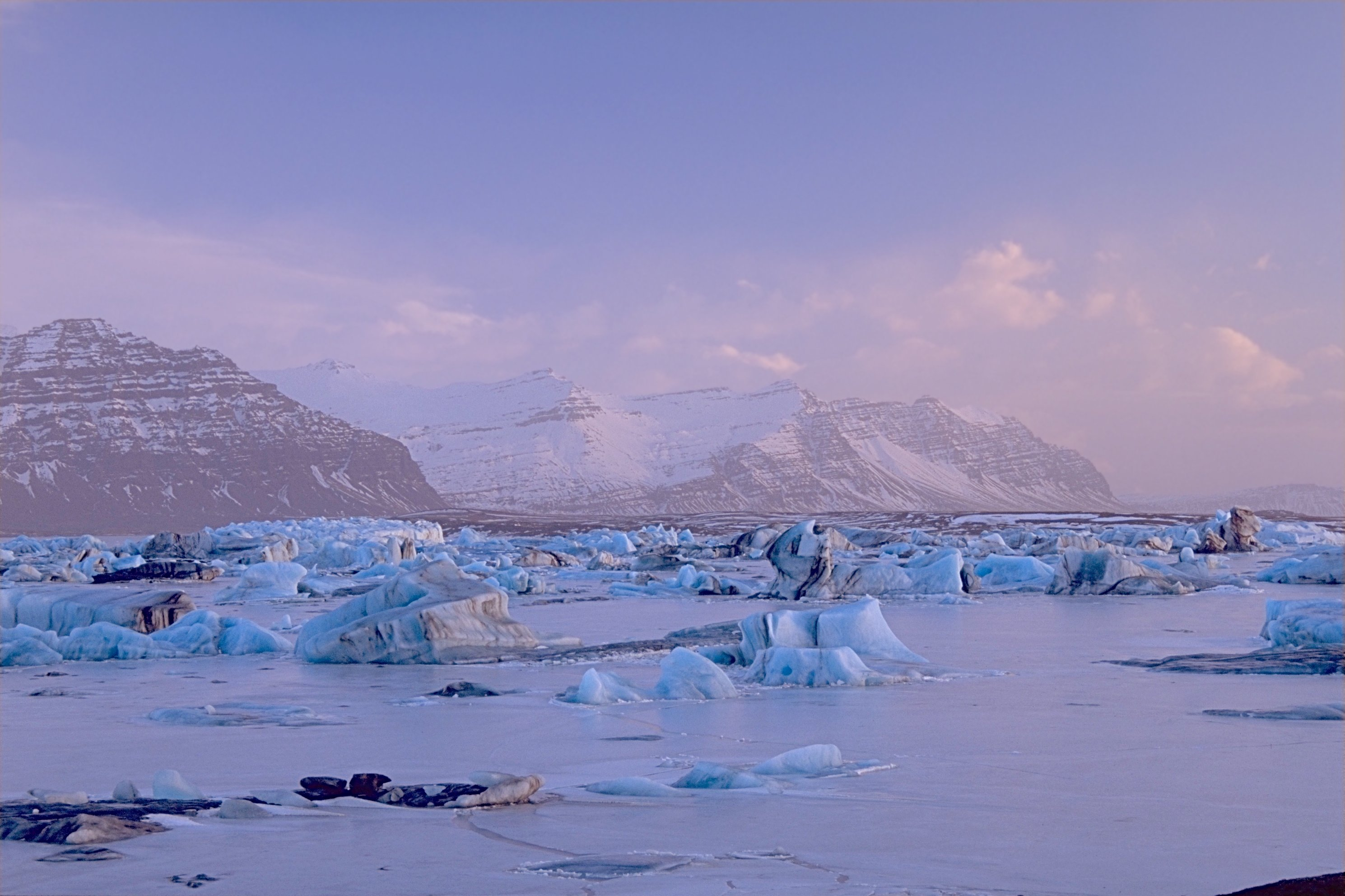 Jökullsarlon at sunrise, Iceland Photo was taken using the following technique: Film: Fuji Velvia Lens: 2.8/28 Filter: none Body: Minolta Dynax 7 Support: Manfrotto 190B Image with Information in English Bild mit Informationen auf Deutsch